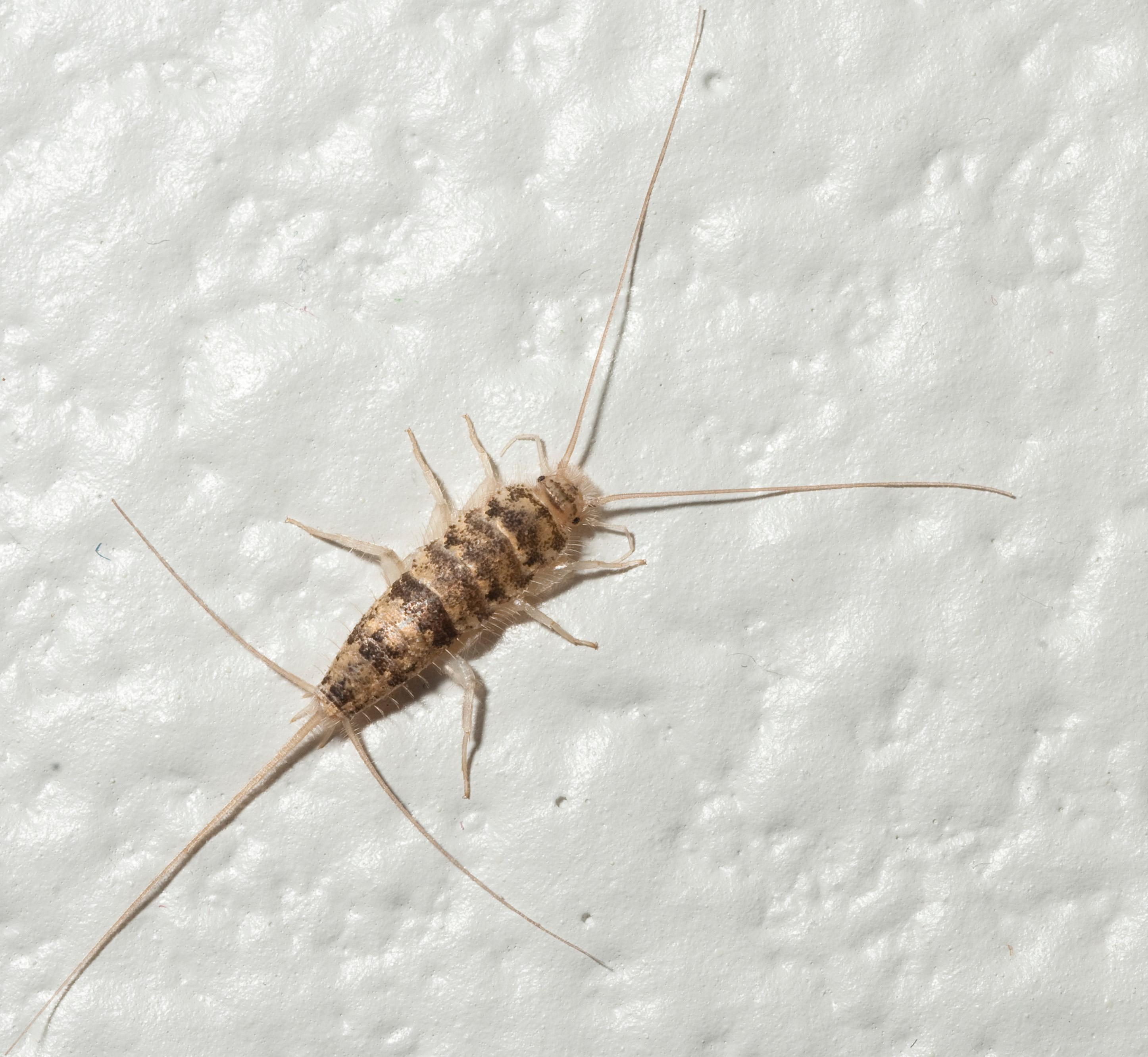 High-resolution photograph of a Silverfish-like (insect) showing texture and hair details. Found in my house in Dallas, TX, USA. This insect's body (excluding antennae) was approximately 10mm in length. This is a Ctenolepismatinae, very probably Thermobia domestica